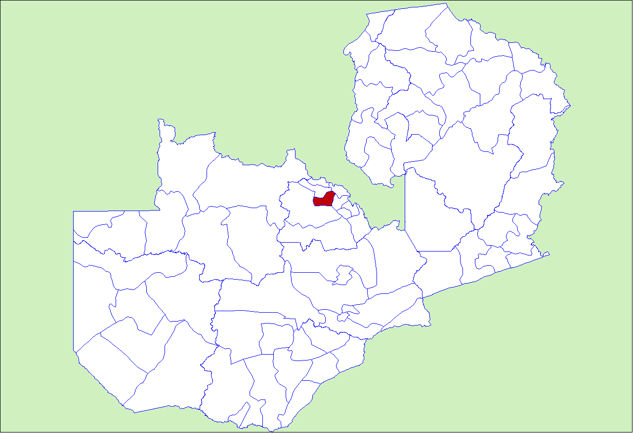 District locator in Zambia